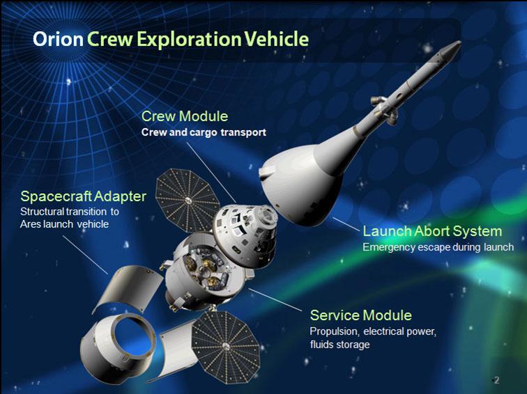 JSC2009-E-145322 (June 2009) --- This engineering model shows a view (with call-outs) of components of the Orion crew exploration vehicle separated. From the bottom left to top right are the spacecraft adapter, service module, crew module and launch abort system. Appears to be the 607 design.